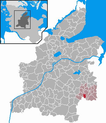 Locator maps of municipalities in Schleswig-Holstein - District Rendsburg-Eckernförde